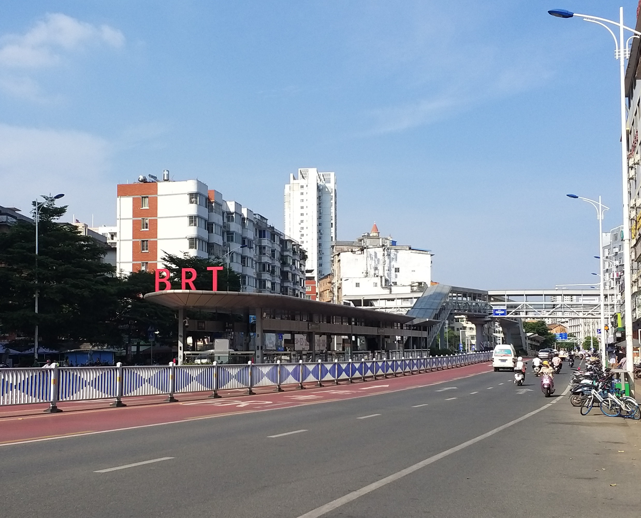 南宁BRT1号线燕子岭站